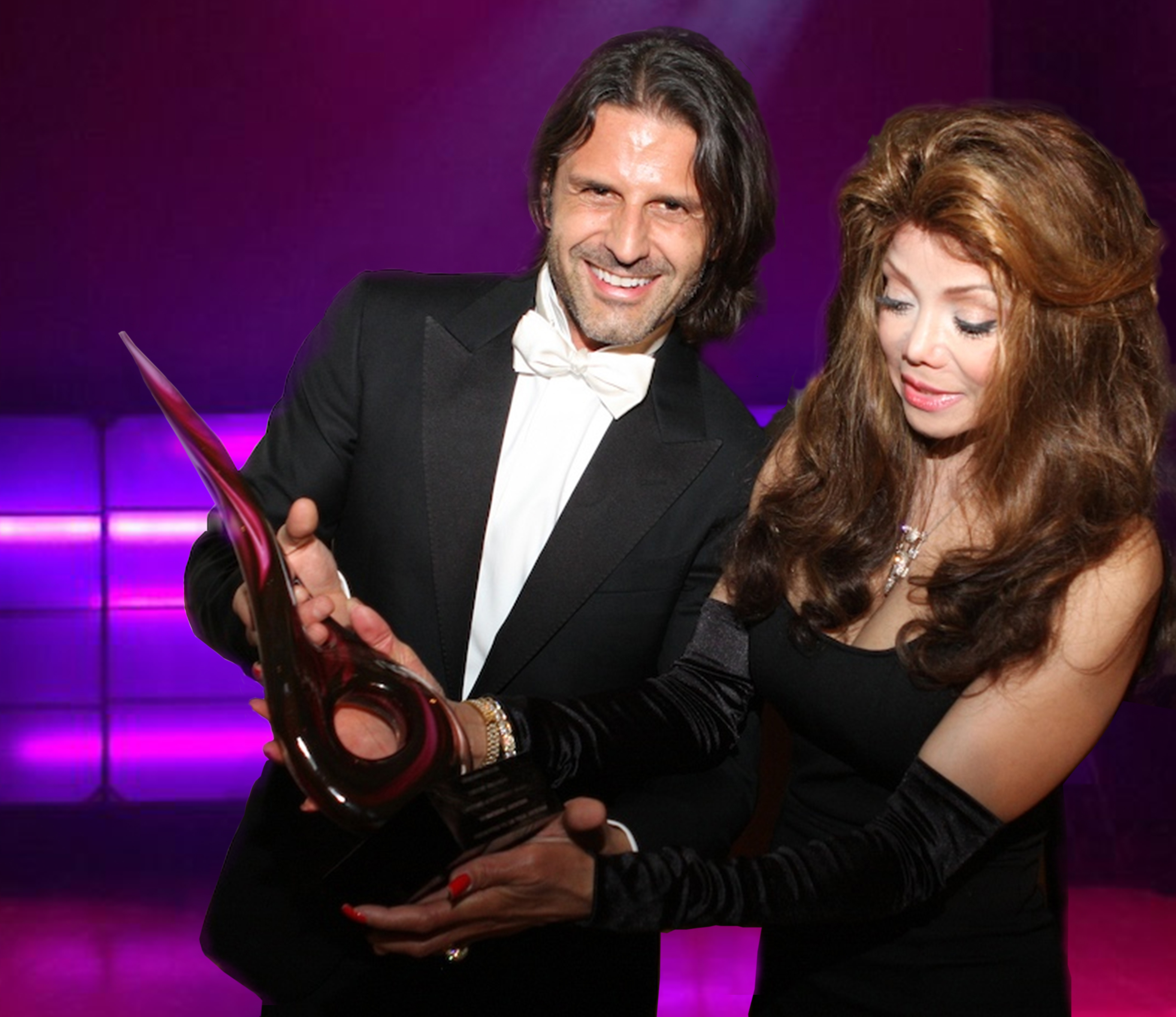 Stefano Cecchi Life's Achievement Award La Toya jackson- Malta